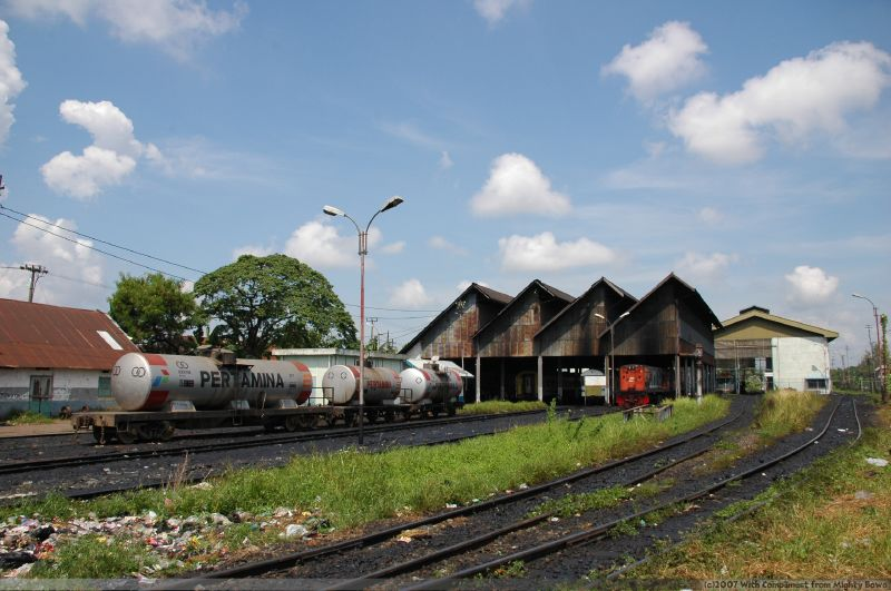 Kertapati Locomotives Depot, South Sumatera.